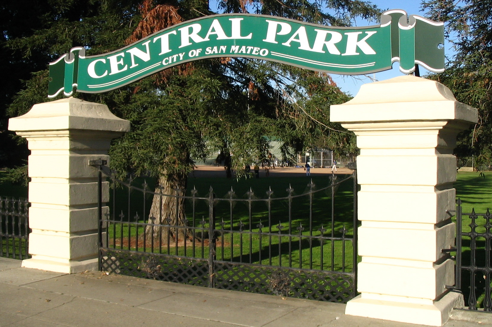 I, User:Schmiteye, took this photo on 11/23/2005 at 2:55PM in the city of San Mateo, California.